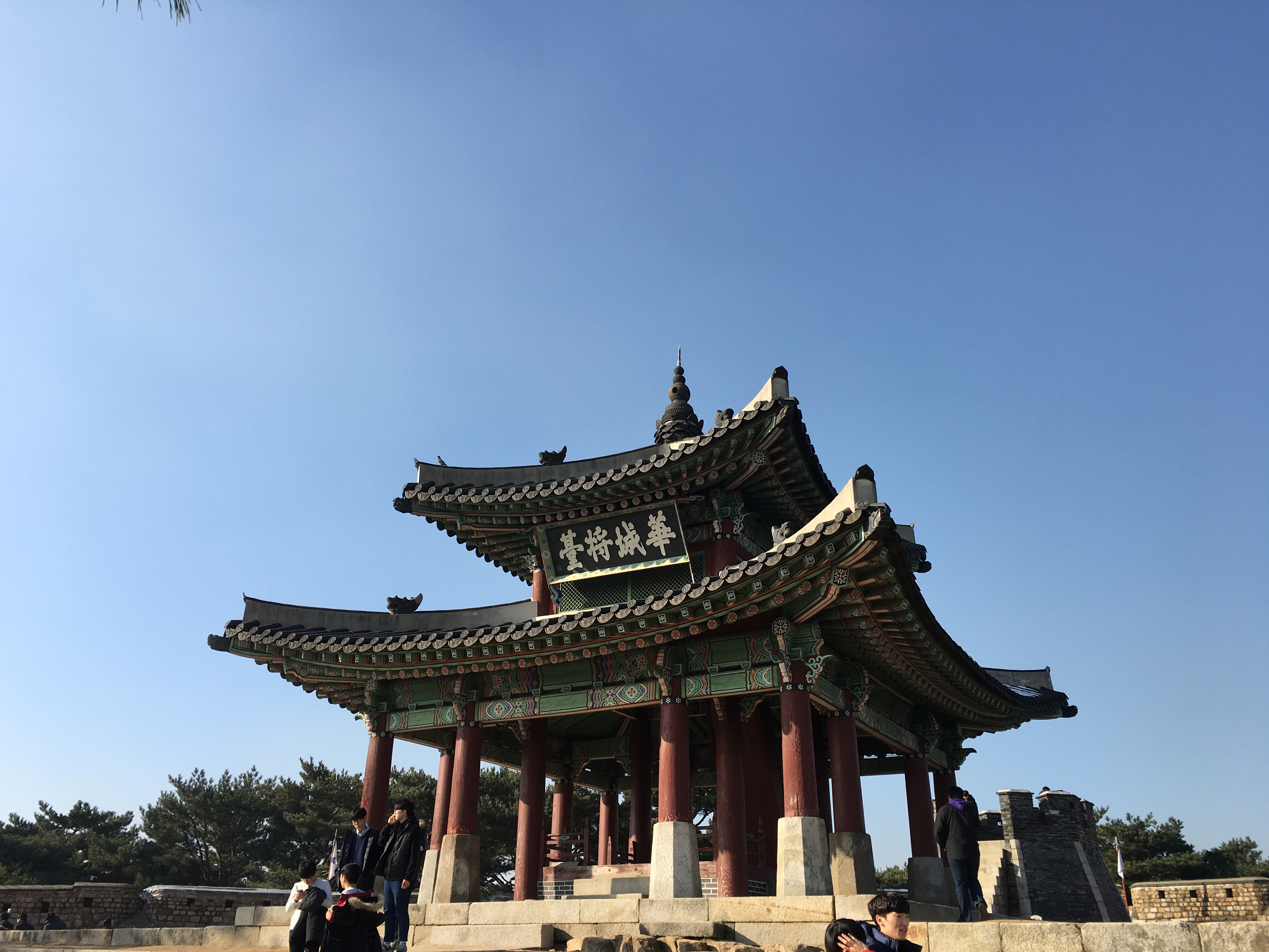 Seojangdae, Suwon Hwaseong.